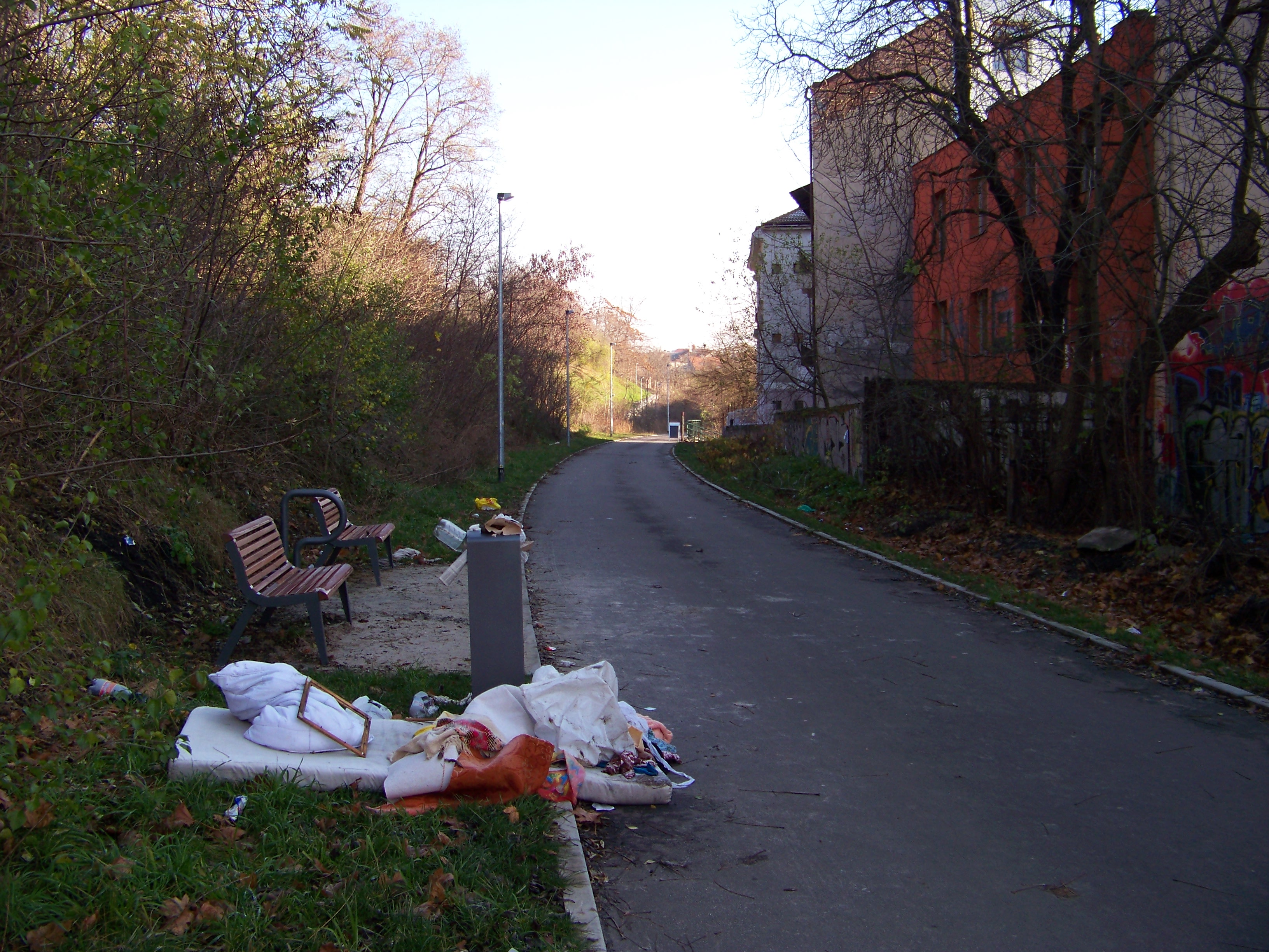 Prague-Žižkov. The bikeway on the former railway track Prague–Turnov.